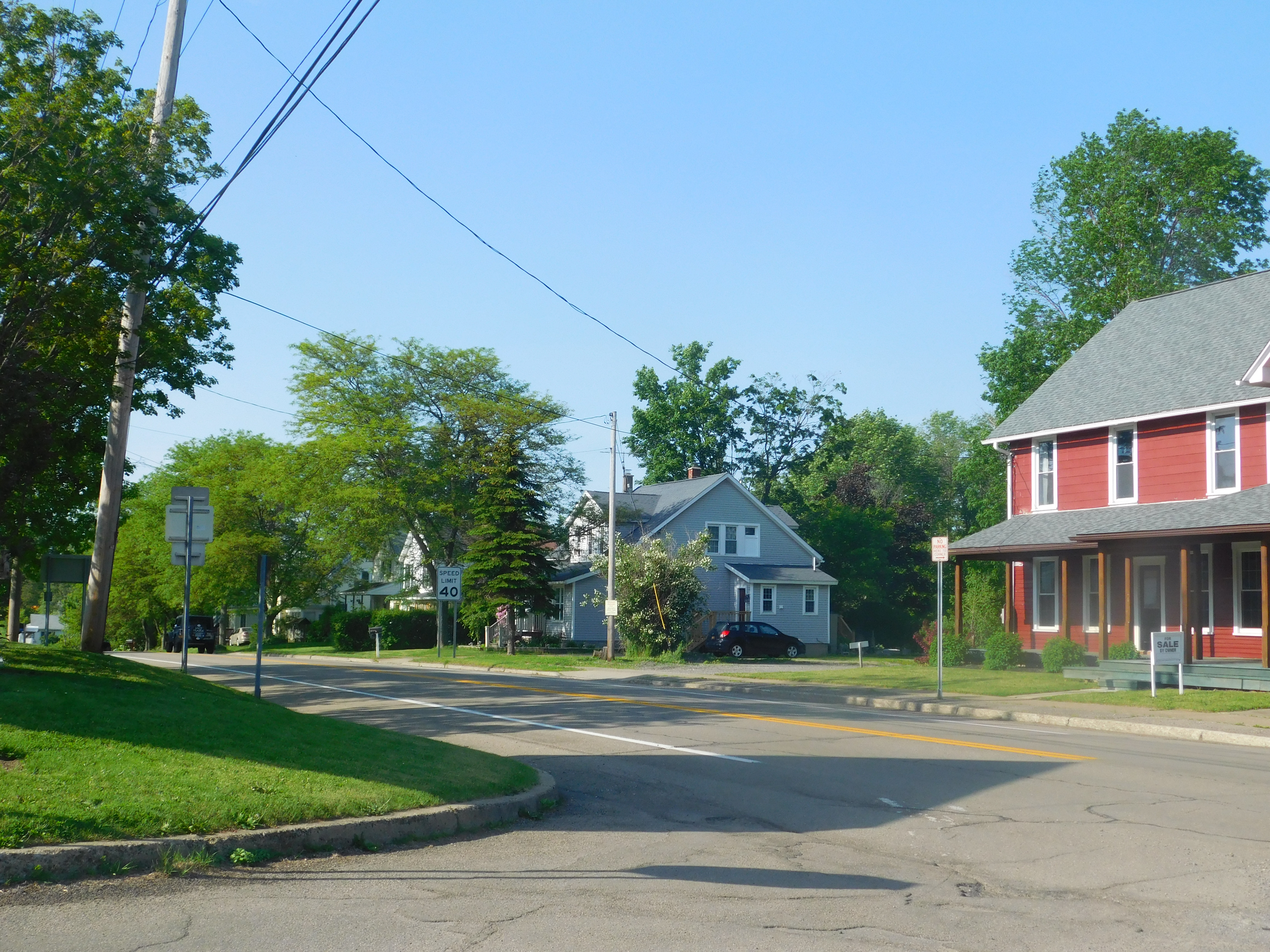 New York State Route 75 northbound in Langford, New York.